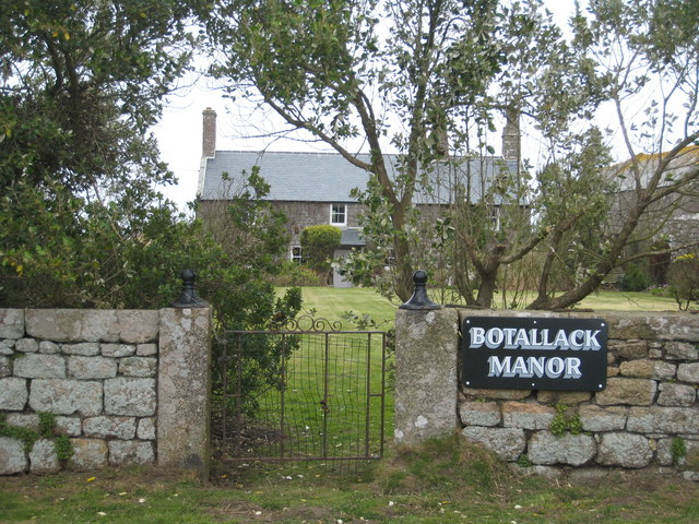 Botallack Manor This 17th Century house featured as Ross Poldark's home 'Nampara' in the tv series.